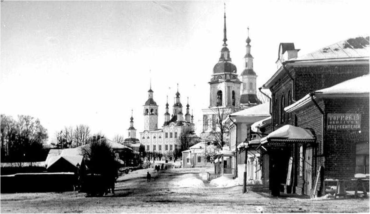 The centre of Totma in the early 20th century. Sretenskaya street. From left to right: St. John the Baptist Church, Church of the Entry into Jerusalem, Church of the Nativity, St. Paraskevi's Church